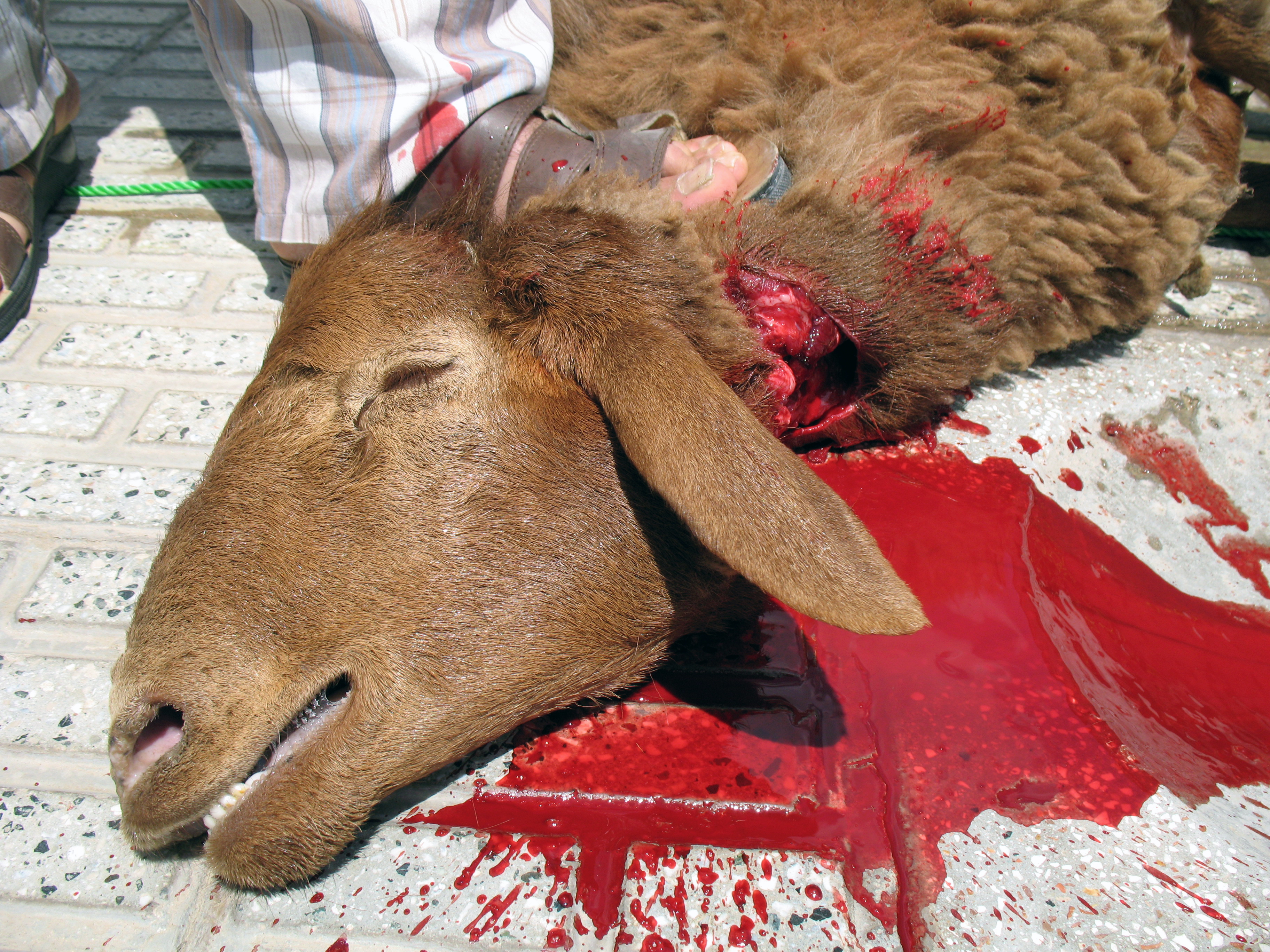 Dhabīḥah is, in Islamic law, the prescribed method of ritual slaughter of all lawful halal animals (goats, sheep, buffalos, chicken) excluding locusts, fish, and most sea-life. Unlawful animals like pigs, dogs, lions, bears, etc. are not allowed to be slaughtered or zabihah. This method of slaughtering lawful animals has several conditions to be fulfilled. The butcher must be Muslim, the name of God or "In the name of God" (Bismillah) must be called by the butcher upon slaughter of each halal animal separately, and it should consist of a swift, deep incision with a very sharp knife on the throat, cutting the wind pipe, jugular veins and carotid arteries of both sides but leaving the spinal cord intact.